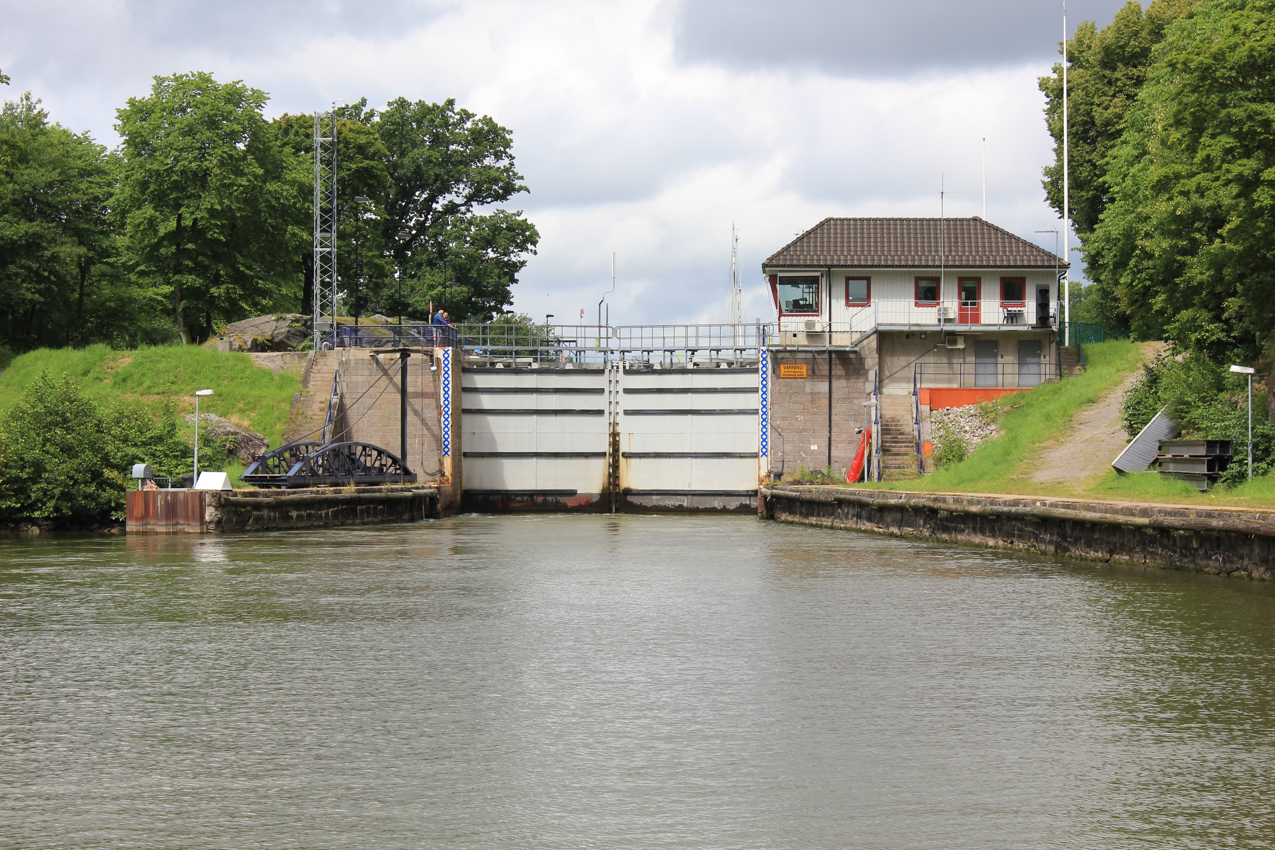 The lock at Brinkebergskulle in the channel Göta Kanal, Sweden.